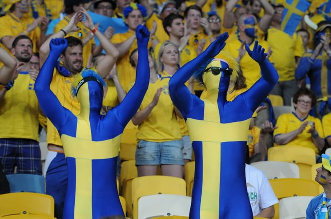 UEFA Euro 2012 match between Ukraine and Sweden that took place in Kiev. Final result was 2:1 (2xShevchenko - Ibrahimović)